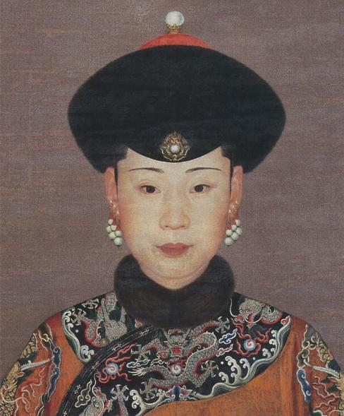 The Official Imperial Portrait of Qing Dynasty's Empresses